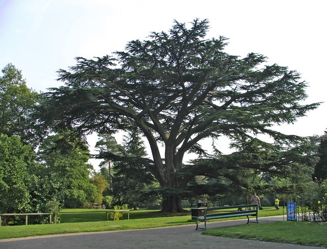 Cedar of Lebanon, Forty Hall, Enfield Large Cedar of Lebanon tree in Forty Hall grounds, which was planted in the mid-17th century. Unfortunately, one of the branches broke off a few months ago in a gale, but fortunately the tree was able to be saved.